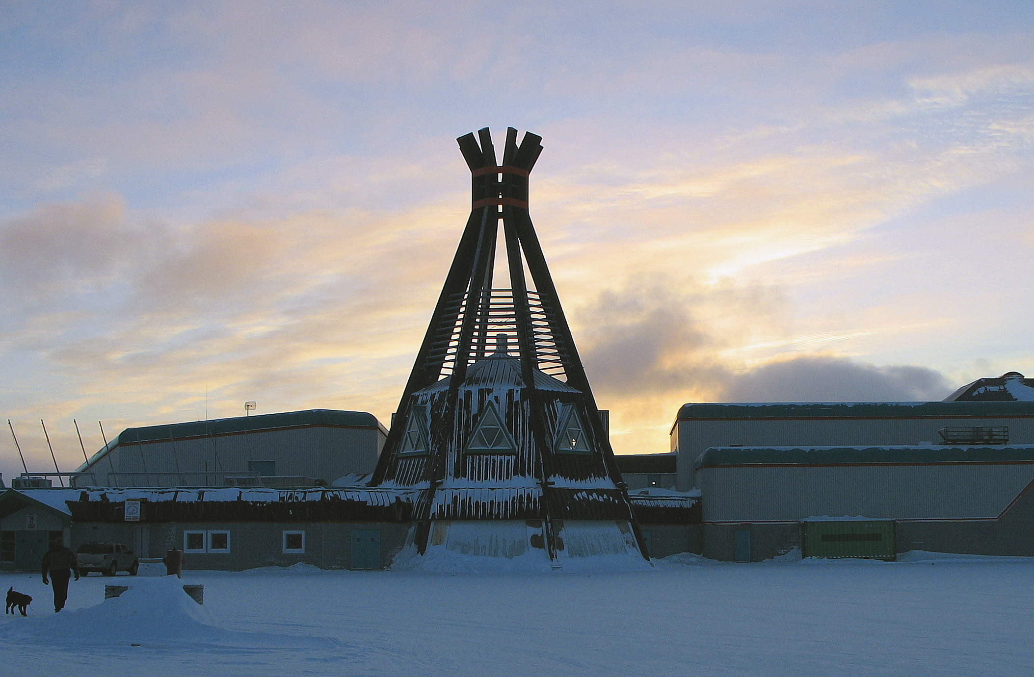 Community centre in Chisasibi, Quebec, Canada